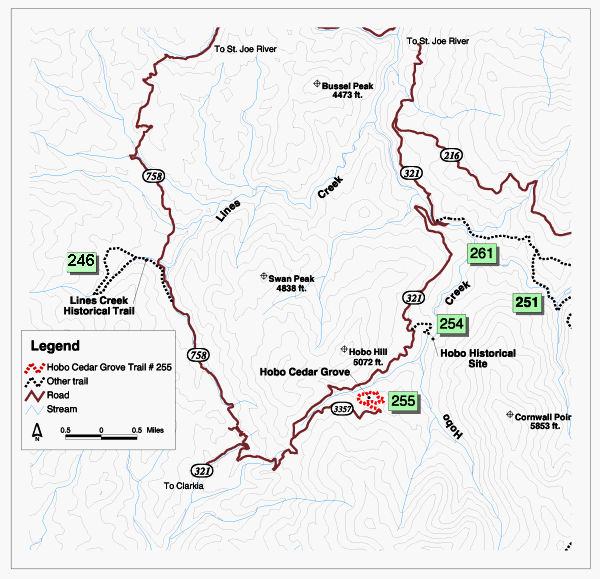 Robbie Giles 16:57, 14 March 2007 (UTC)